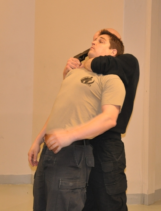 Defence against pistol threat from behind at Stockholm Krav Maga Center